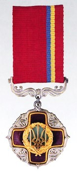 Ukrainian National Award - the order "For Merit" (3st degree)